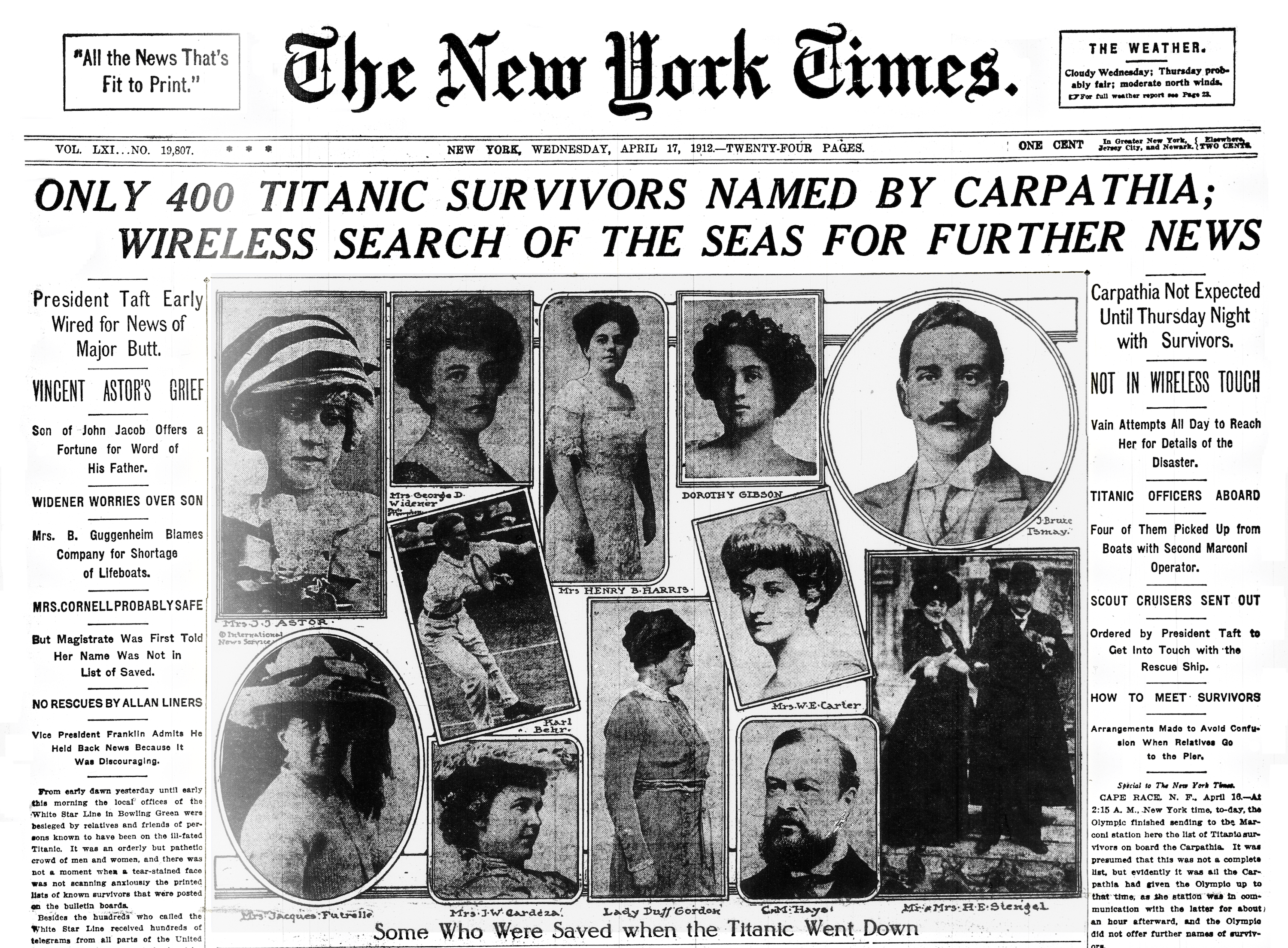 The New York Times front-page feature showing some prominent individuals who survived the sinking of the RMS Titanic.